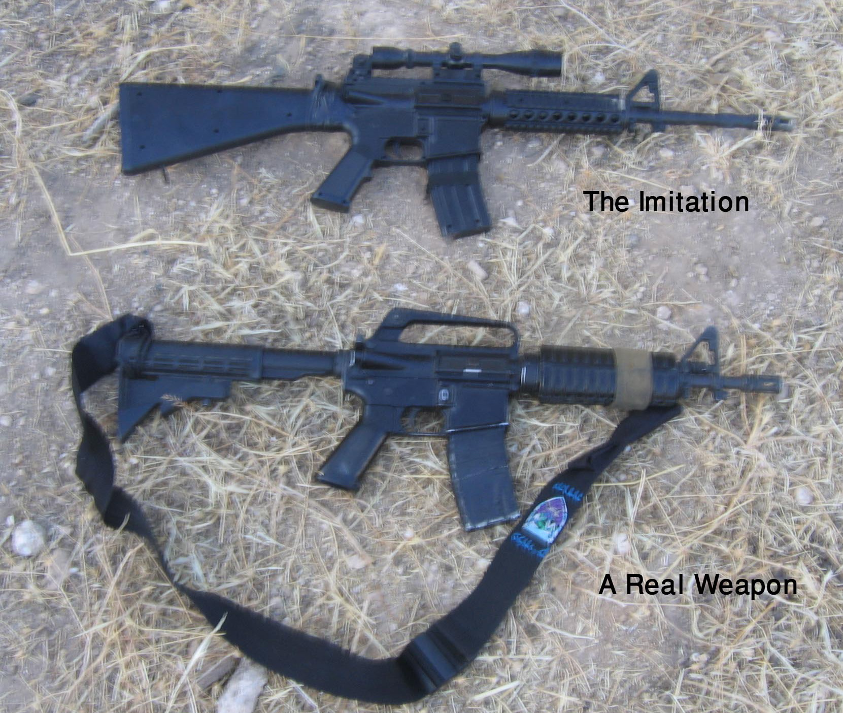 07/03/2007 During an IDF operation in the village of Hirbet Luza near Hebron, a force identified a Palestinian gunman, fired and hit him. An initial examination found that the Palestinian was holding an imitation of an M-16 rifle with a scope on it. The force had mistakenly identified it as a real weapon. Pictured: The fake/imitation M-16 rifle on top, below is a real M-16.